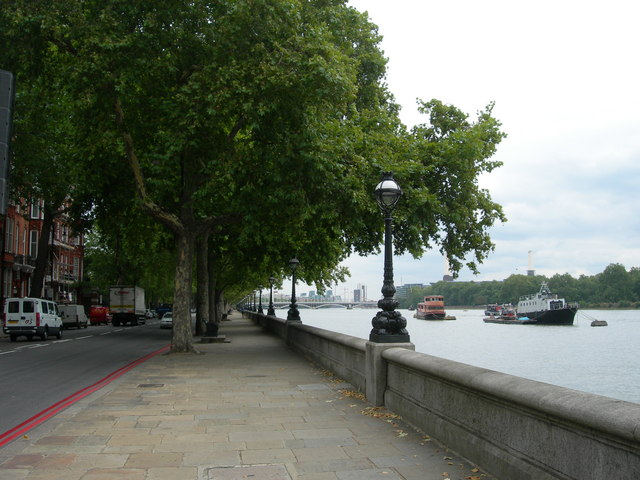 Chelsea Embankment. This is an important route between West and South East London. Chelsea Bridge is ahead, Battersea Park is on the right.